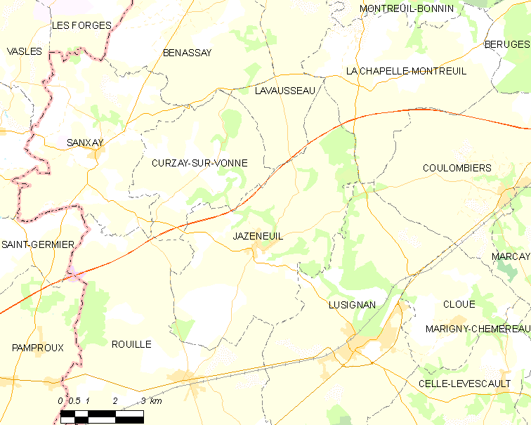 Map of French municipality Jazeneuil